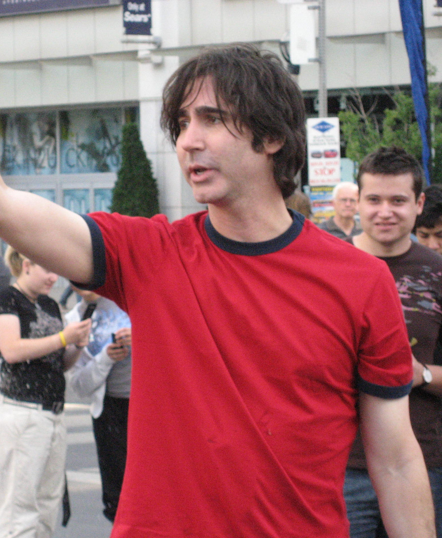 Spencer Rice filming the show Kenny vs. Spenny on Yonge-Dundas Square in Toronto, Canada